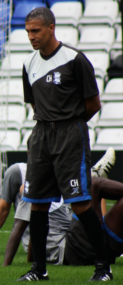 Chris Hughton at Birmingham City open training session at St. Andrews' Stadium.